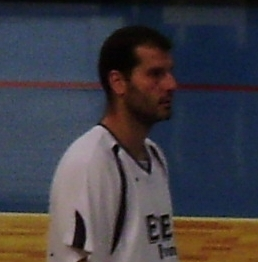 Michalis Kakiouzis, PAO - Efes Pilsen, OAKA stadium